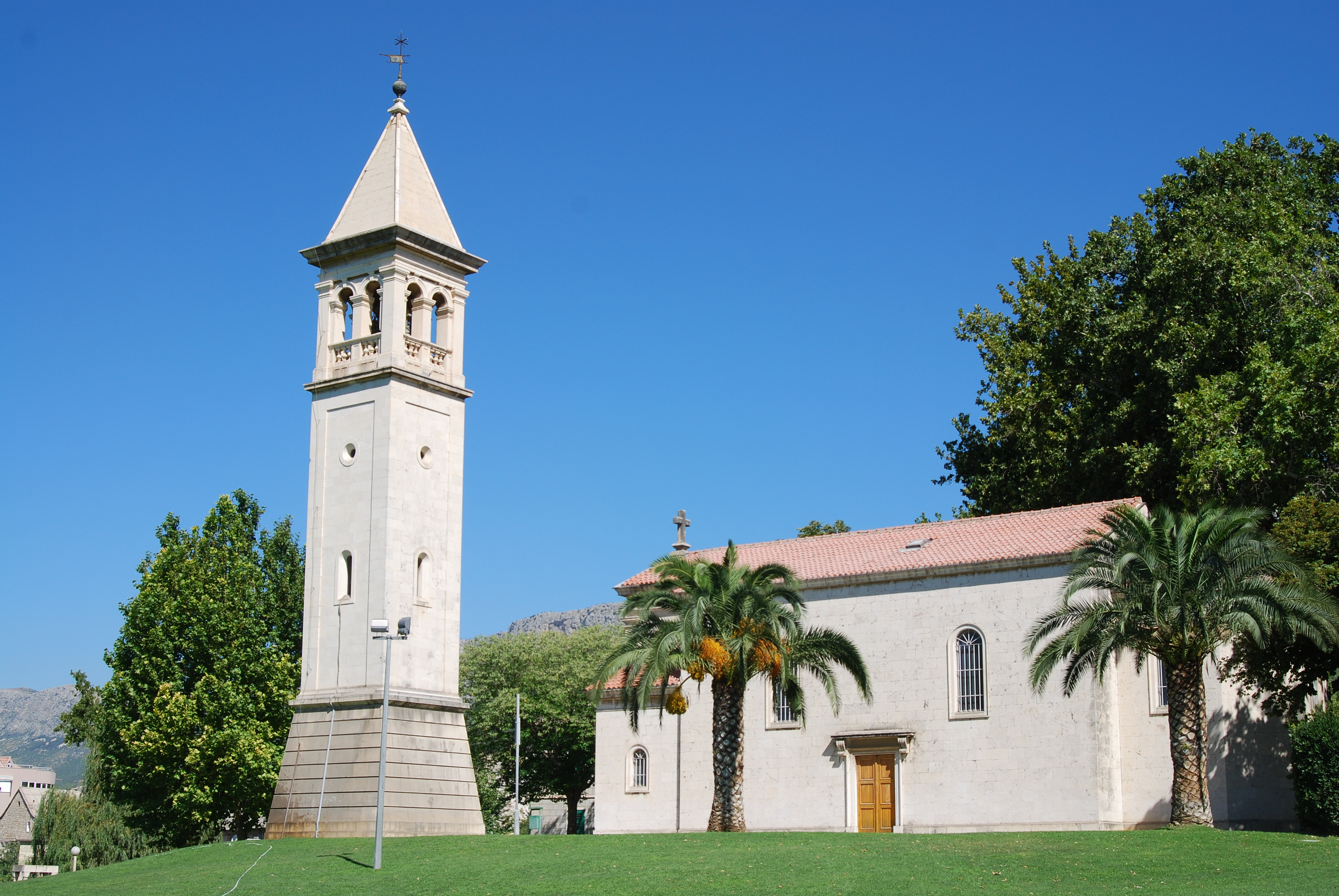 Church in Solin, Croatia